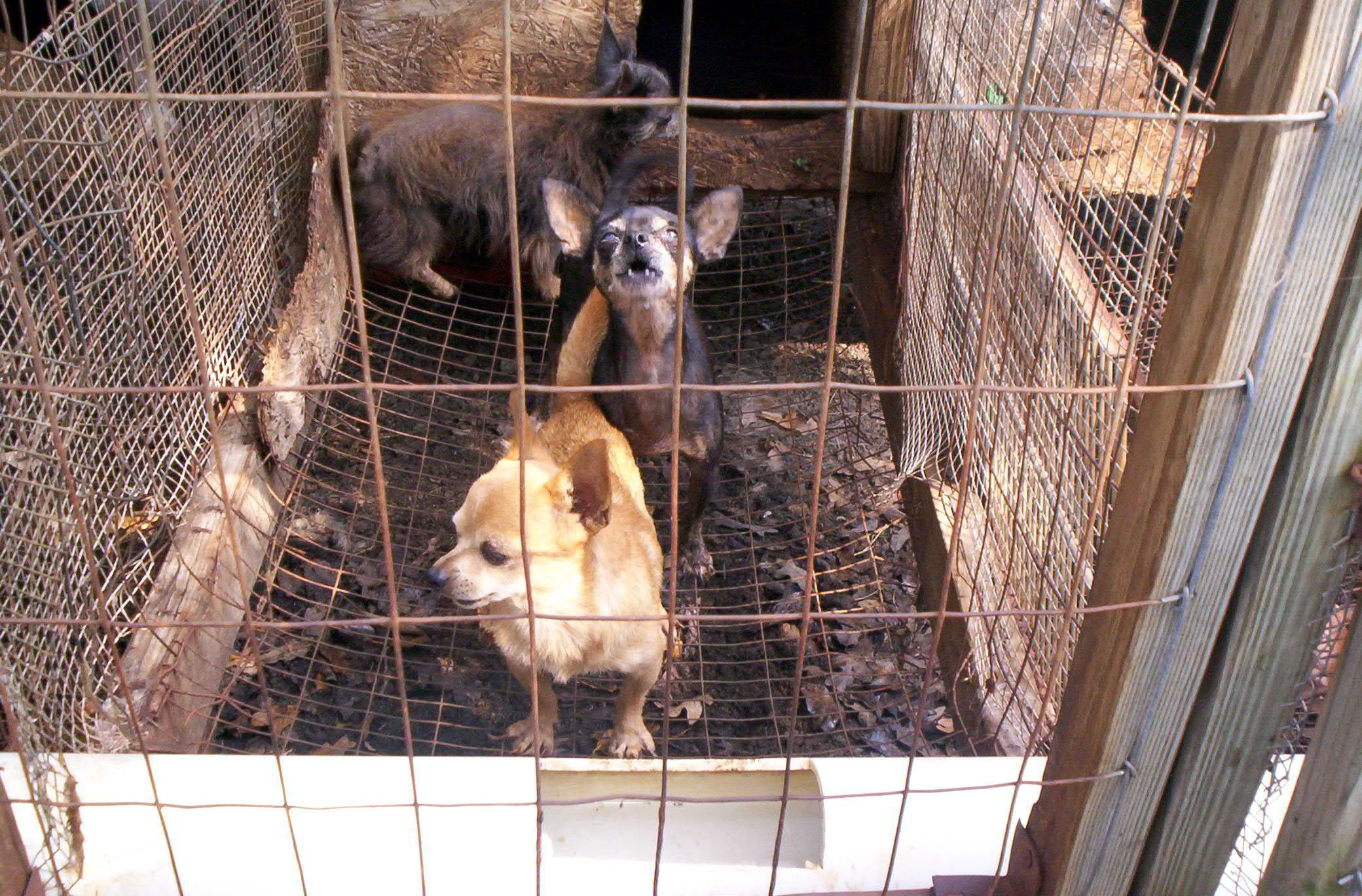 Miniature breed dogs in a puppy mill